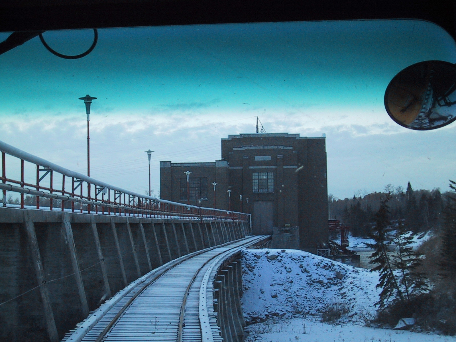 Winnipeg Hydro (now Manitoba Hydro) Pointe du Bois generating station built 1906, seen from the tramway that was the only access to the site.